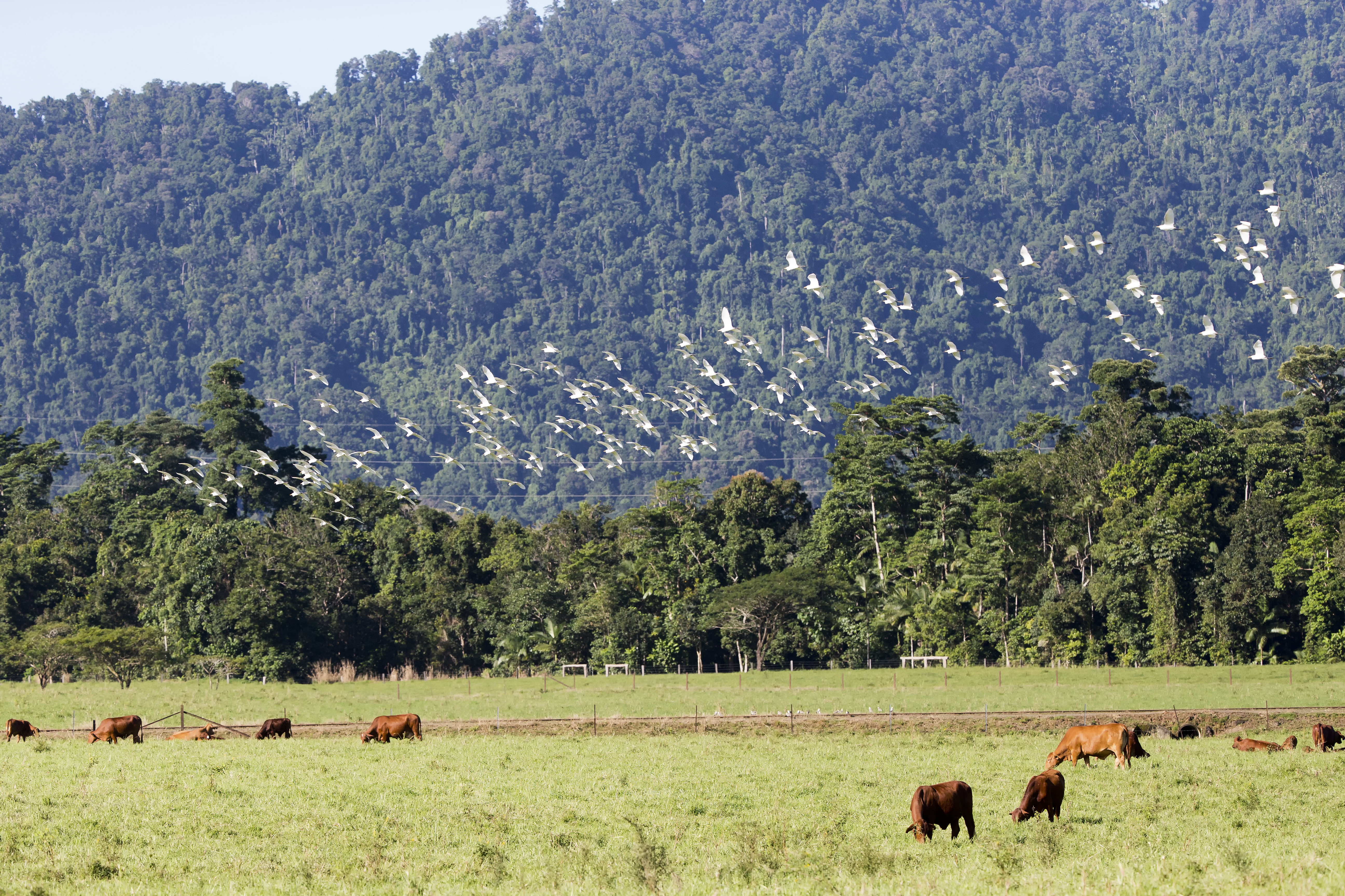 A group of cattle egrets circle and land at Bellenden Kerr North Qld, Australia